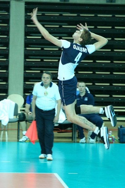 Finland national team player Olli-Pekka Ojansivu serving in Olympic Qualifications in Ukraine.